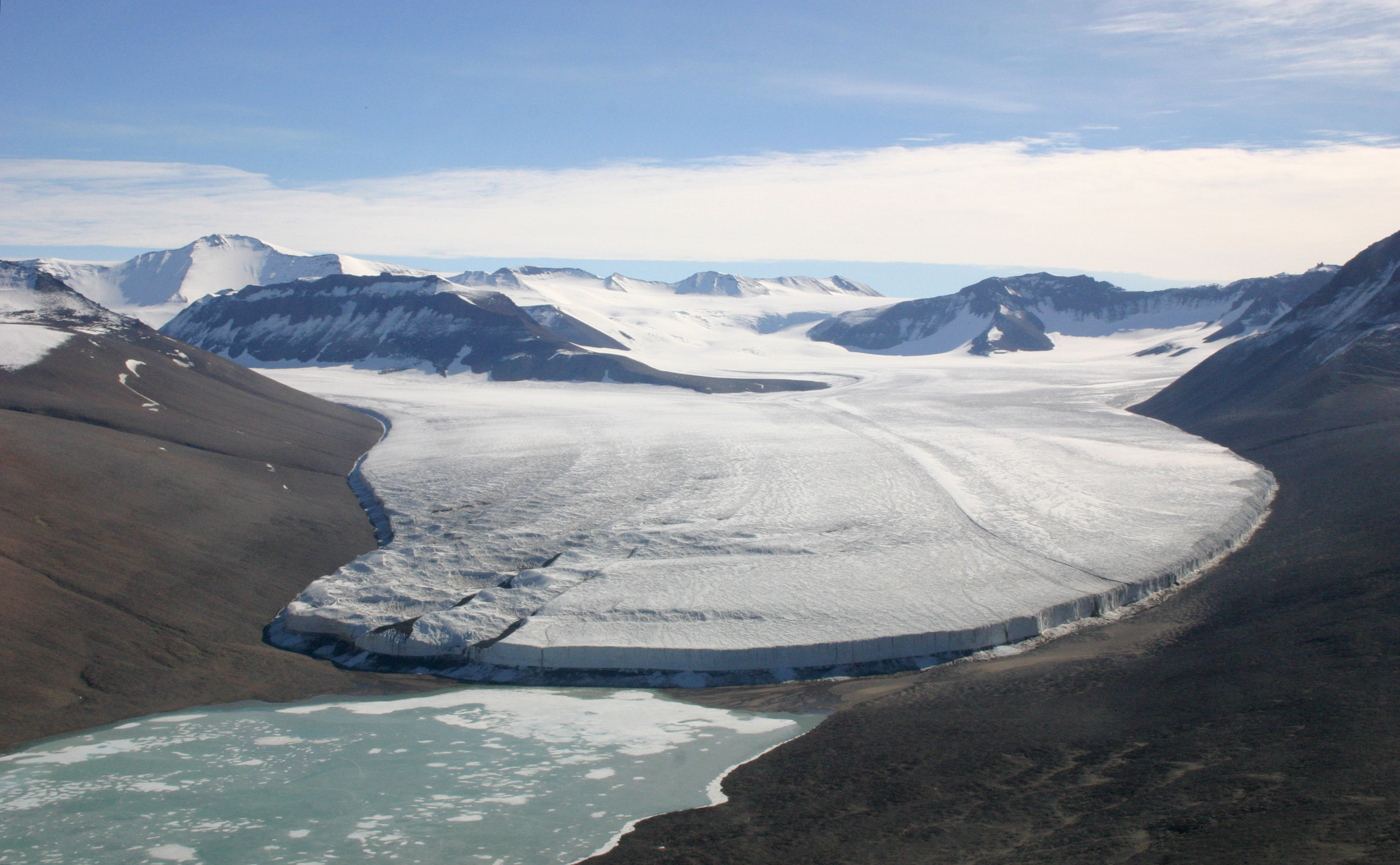 Upper Victoria Glacier, Victoria Valley, McMurdo Dry Valleys, Antarctica. View to NW at 500 feet elevation.